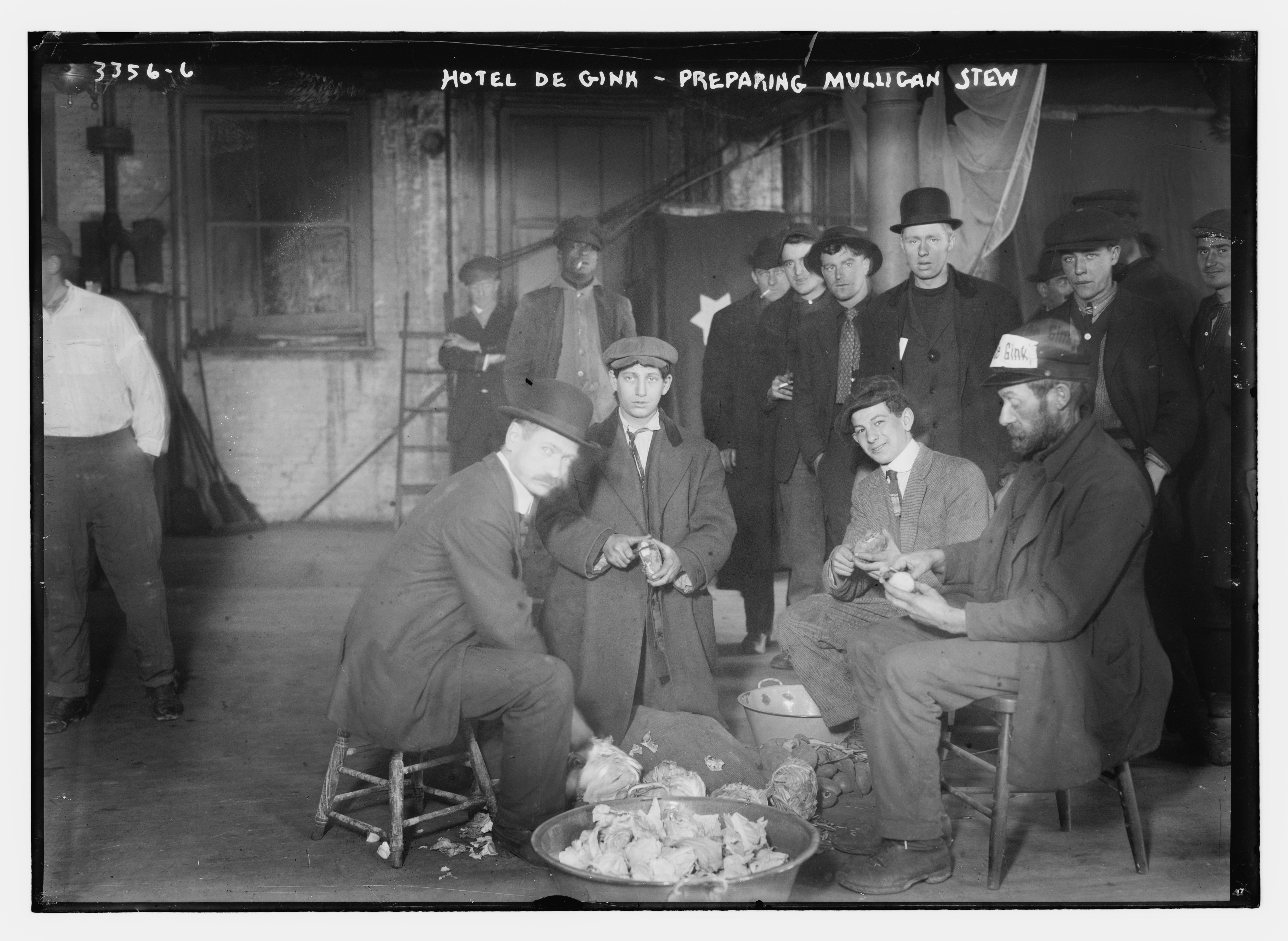 Title: Hotel de Gink -- preparing Mulligan stew Abstract/medium: 1 negative : glass ; 5 x 7 in. or smaller.